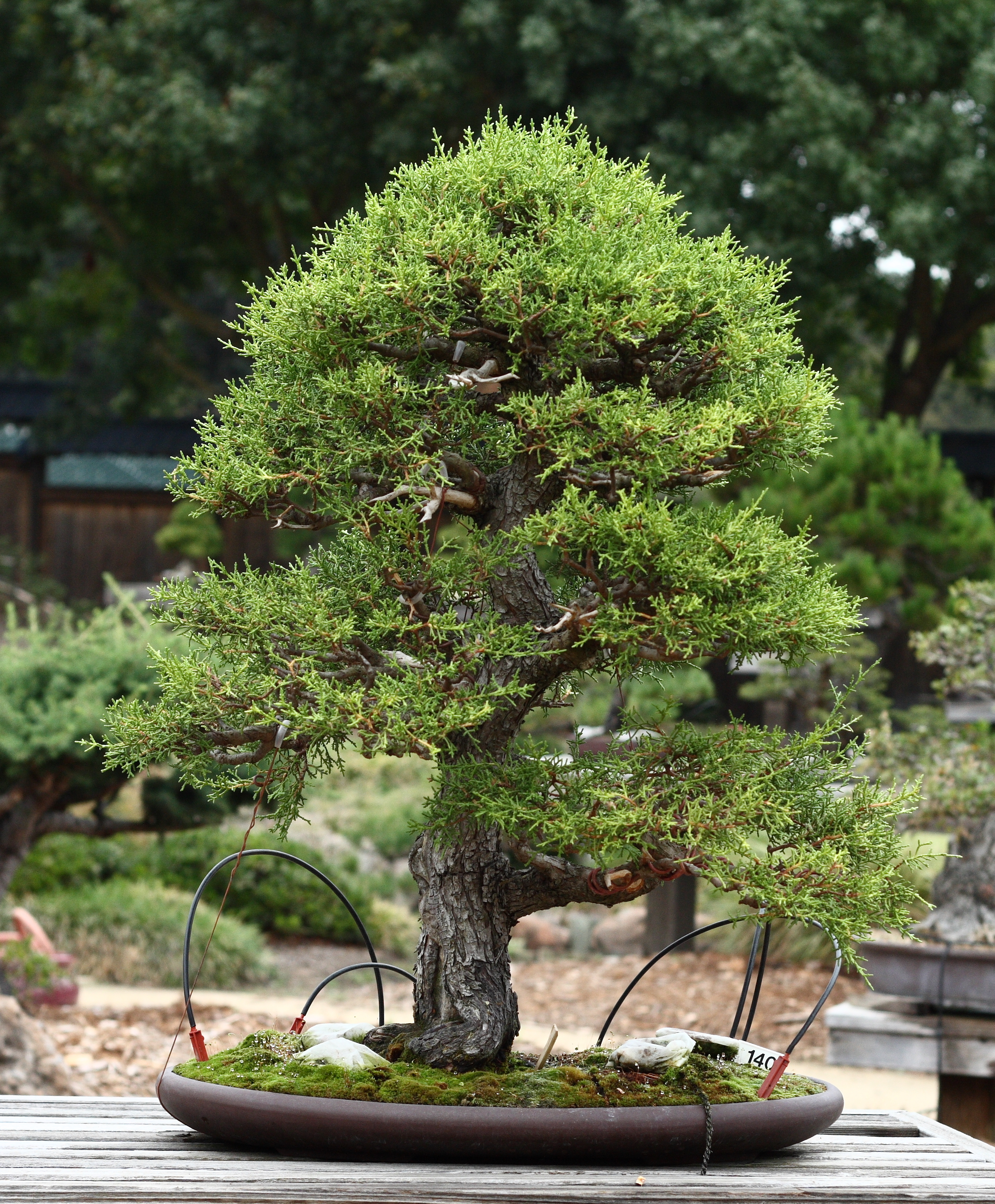 A Monterey Cypress (Cupressus macrocarpa) in the informal upright style, bonsai 140 of the Golden State Bonsai Federation Collection North in Oakland, California (now called the GSBF Bonsai Garden at Lake Merritt). It was donated by Katsumi Kinoshita.